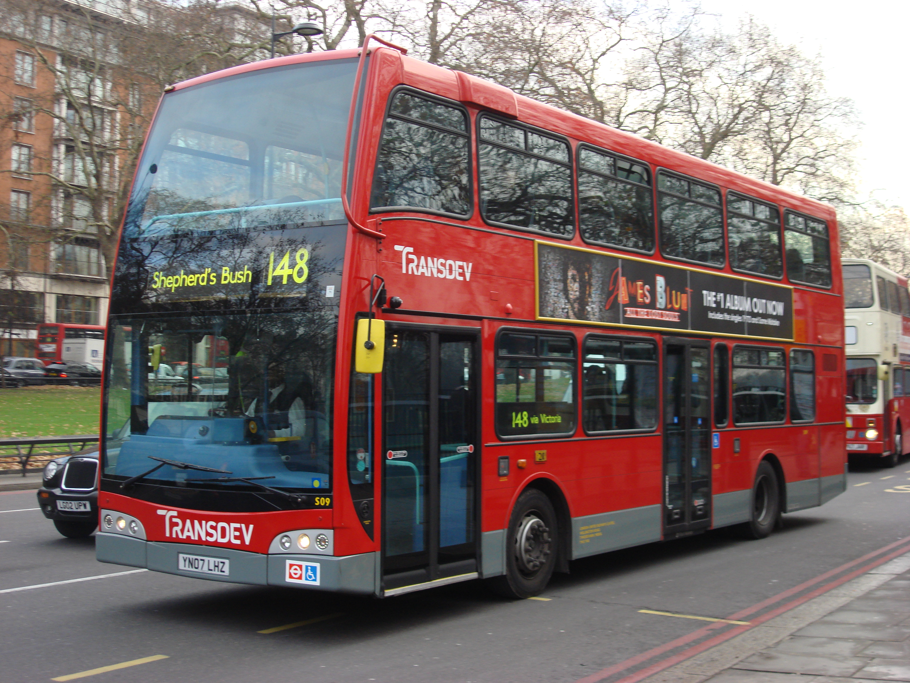 A bus on London Buses route 148